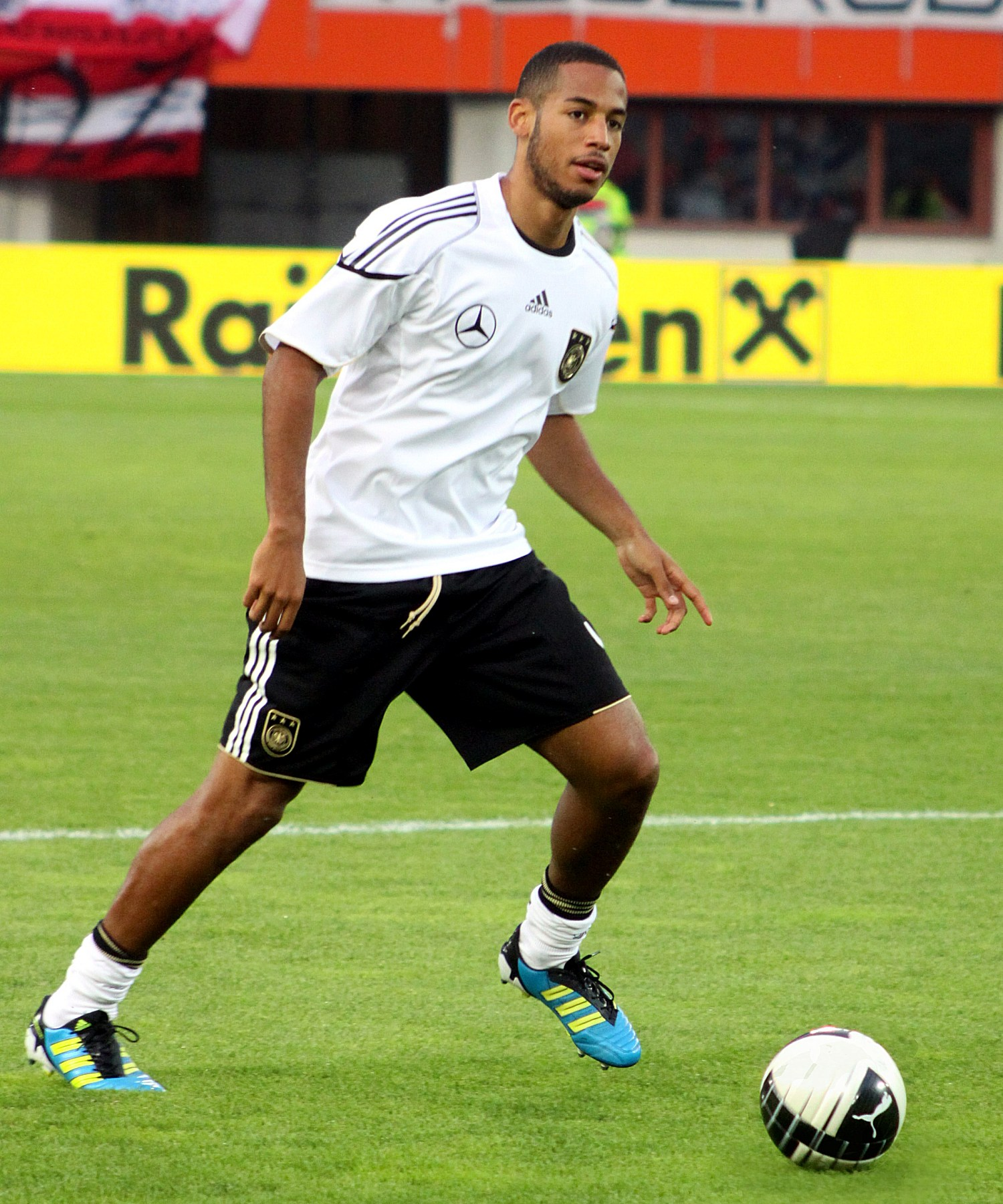 Dennis Aogo (Hamburger SV), german national football team - OpenStreetMap(Info)